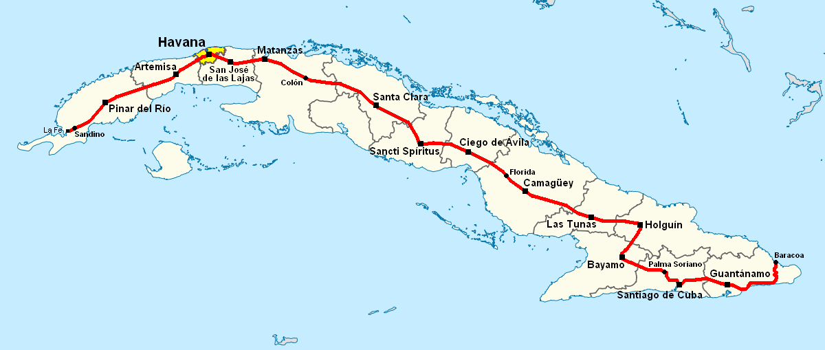 Map of the Carretera Central in Cuba Note: A file on EcuRed was updated on 15 February 2013 to a new version, based on this file, updated on 31 January 2013.